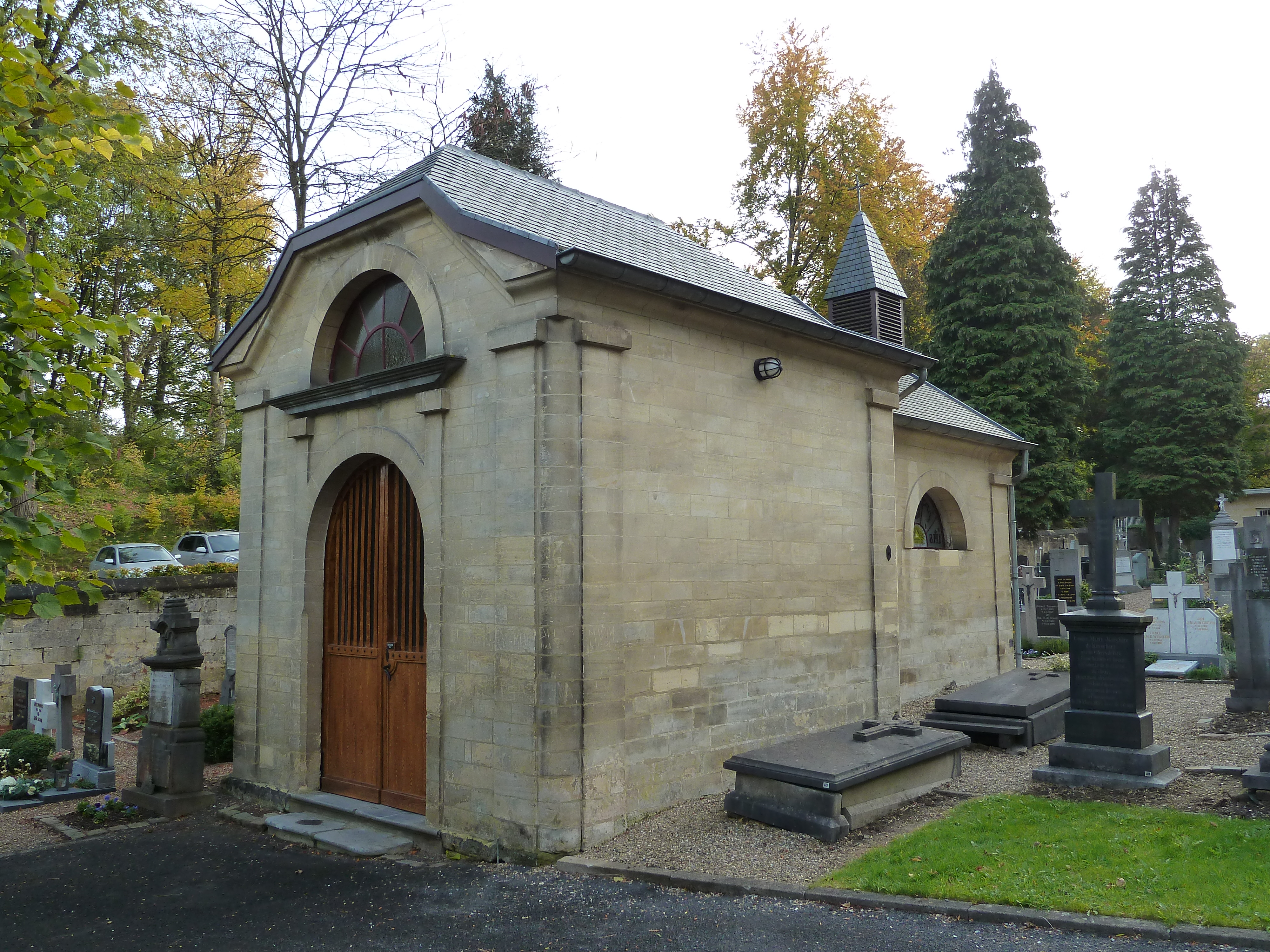 Kerkhofkapel at the Cauberg cemetry, Valkenburg, Limburg, the Netherlands